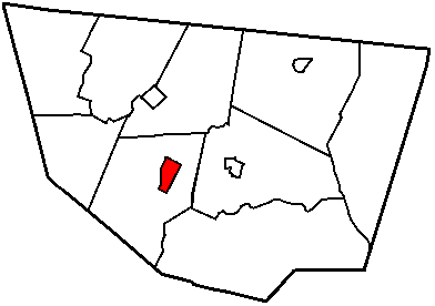 Map of Sullivan County with township and municipal bondaries is taken from US Census website [1] and modified by User:Ruhrfisch in August 2005. My modifications licensed under the GNU Free Documentation License. Source: US Census website [2], modified by User:Ruhrfisch